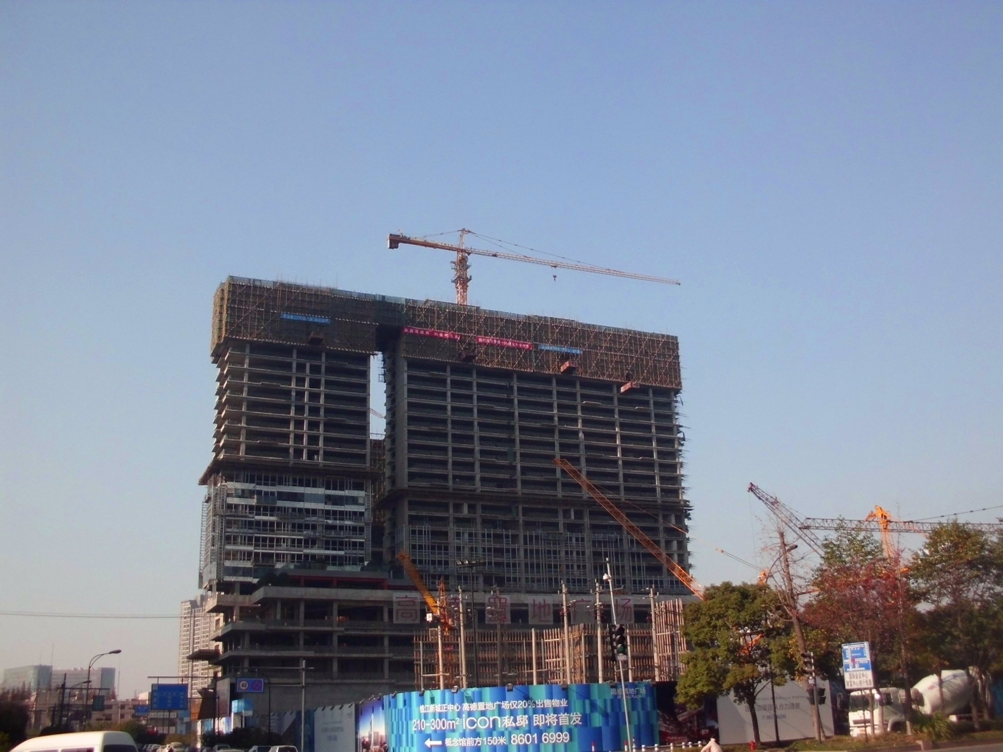 Hangzhou Gtland Plaza